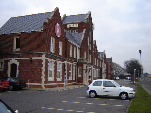 Hog's Back Hotel. This hotel has great views from the Hog's Back but the Hog's Back is the A31 a primary commuter route.